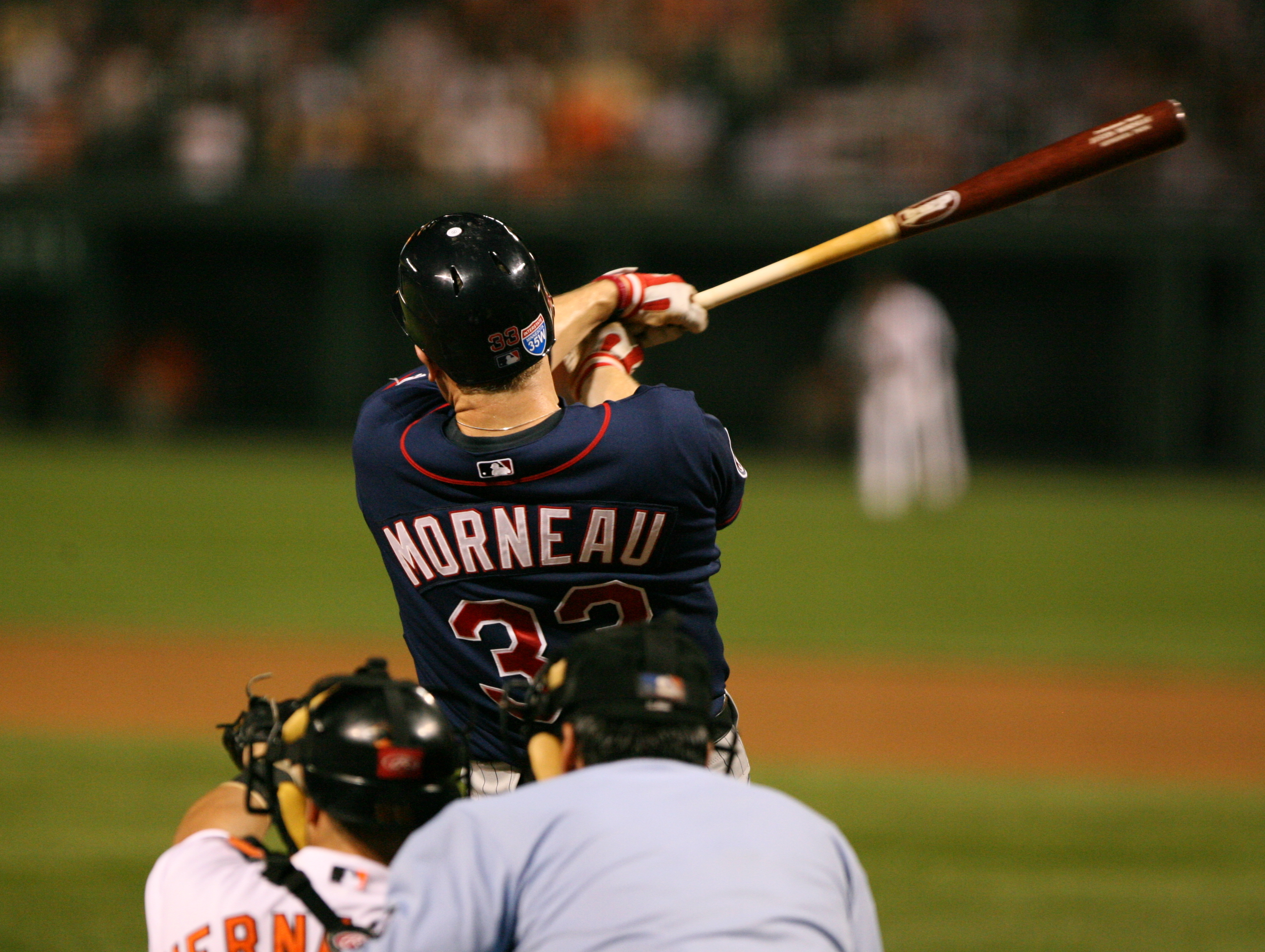 Justin Morneau